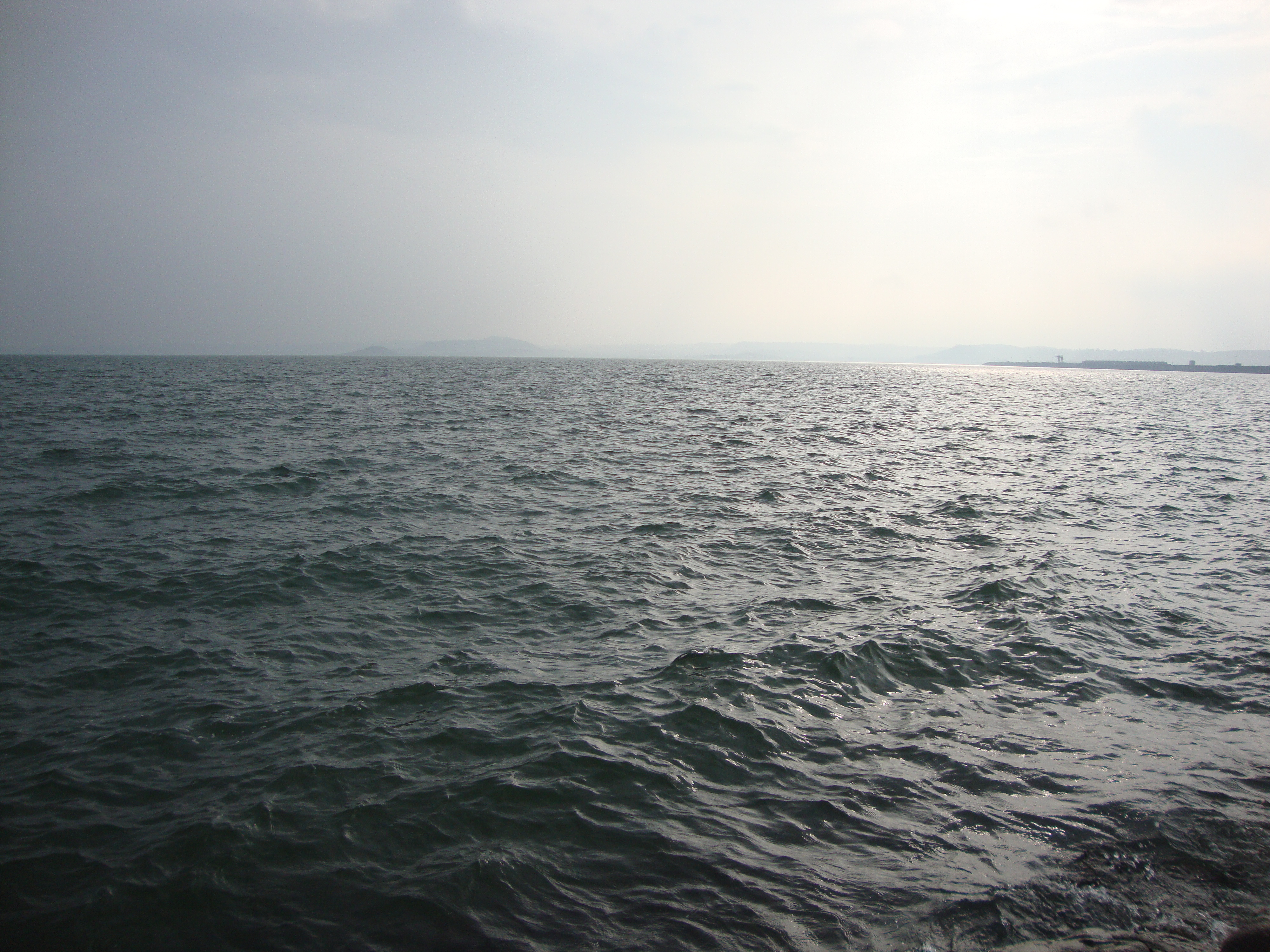 Image of Bargi Water Reservoir